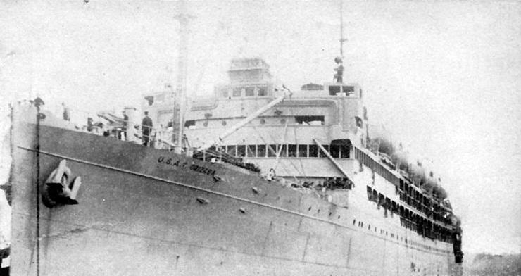 USAT Orizaba (U.S. Army Transport, 1918) Halftone reproduction of a photograph taken in 1941, during the ship's brief service as a U.S. Army Transport. She was transferred to the Navy in June of that year and became USS Orizaba (AP-24). Copied from the book "Troopships of World War II", by Roland W. Charles. U.S. Naval Historical Center Photograph.